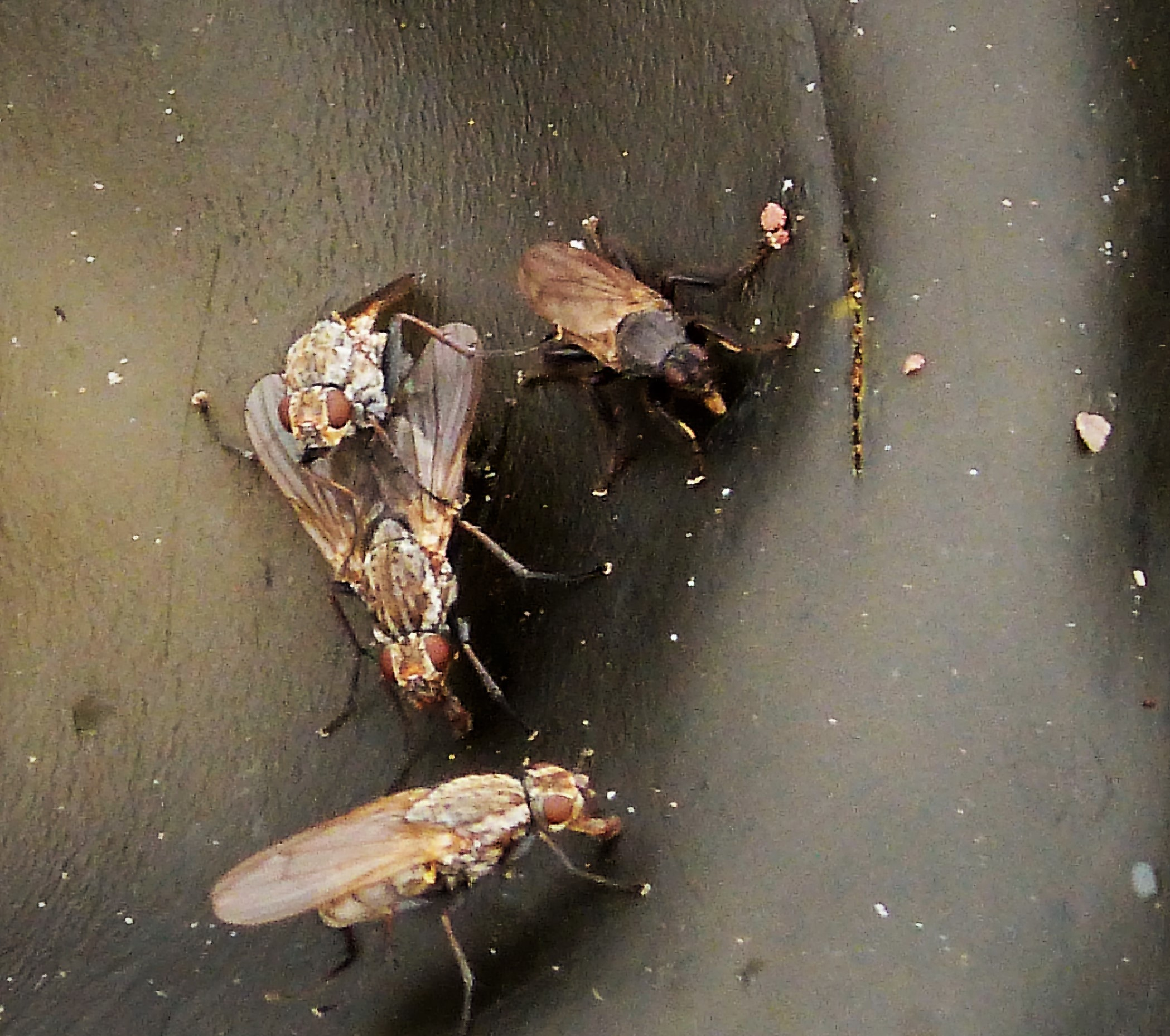 Torness , S.E. Scotland NT737753